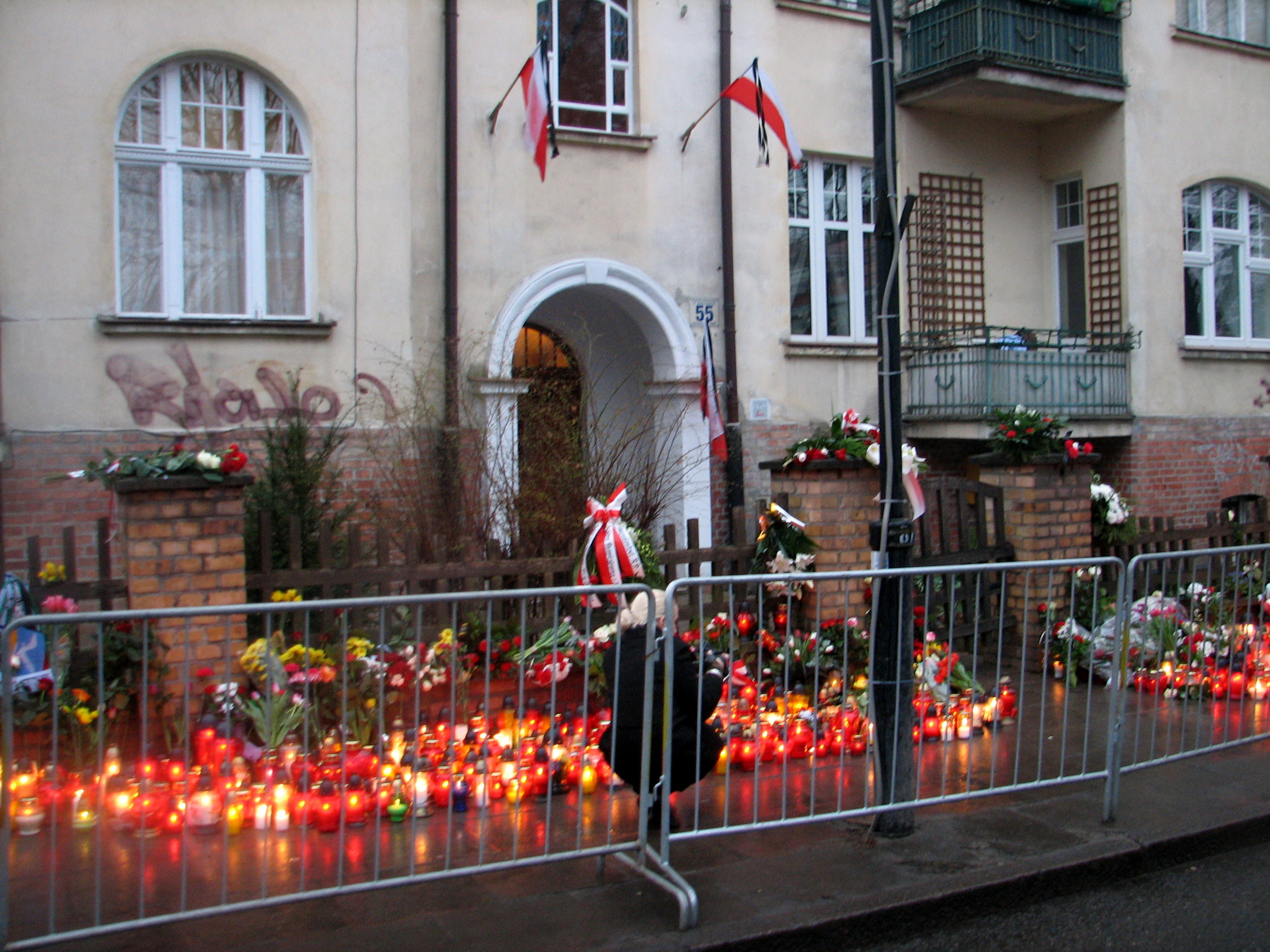 Lech Kaczyński ex-house in Sopot after president's plane crash 2010. Political opinion of uploader is secret.